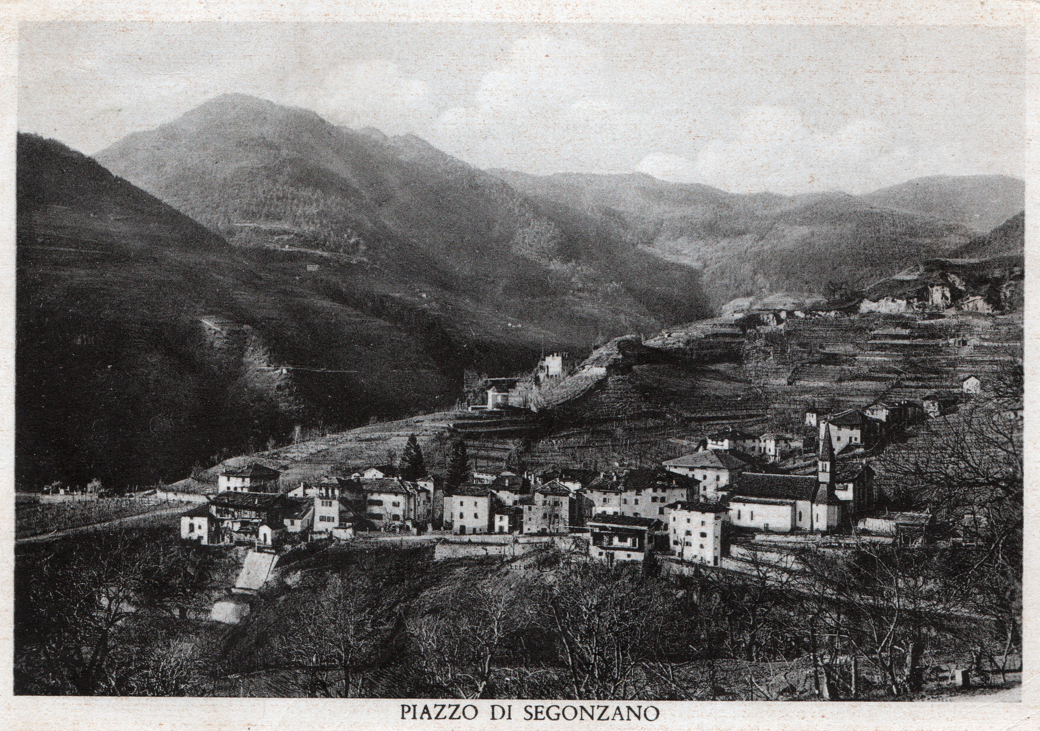 Postcard of Piazzo (Segonzano, Trentino, Italy), 1941